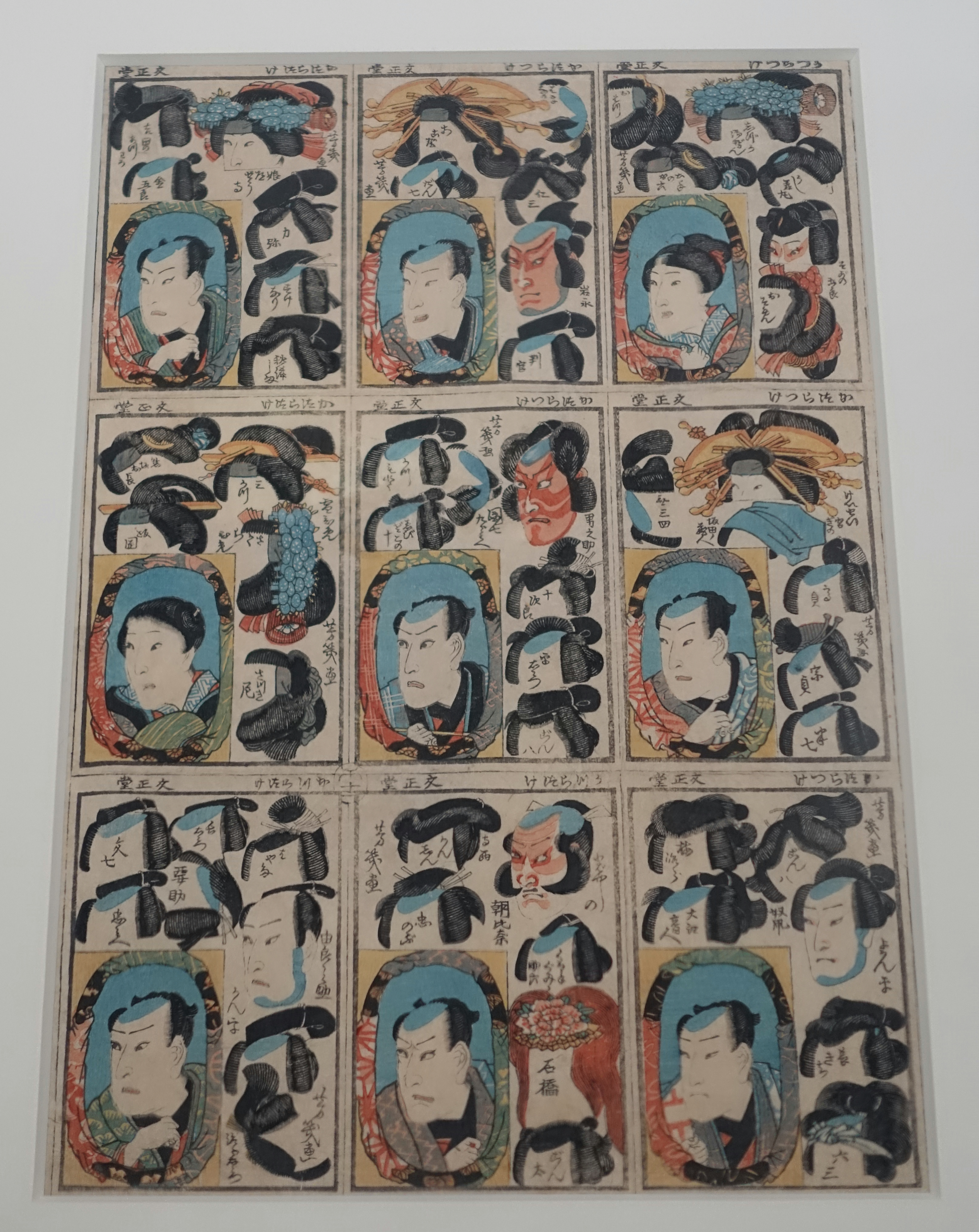 Print in the Edo-Tokyo Museum - Sumida, Tokyo, Japan.